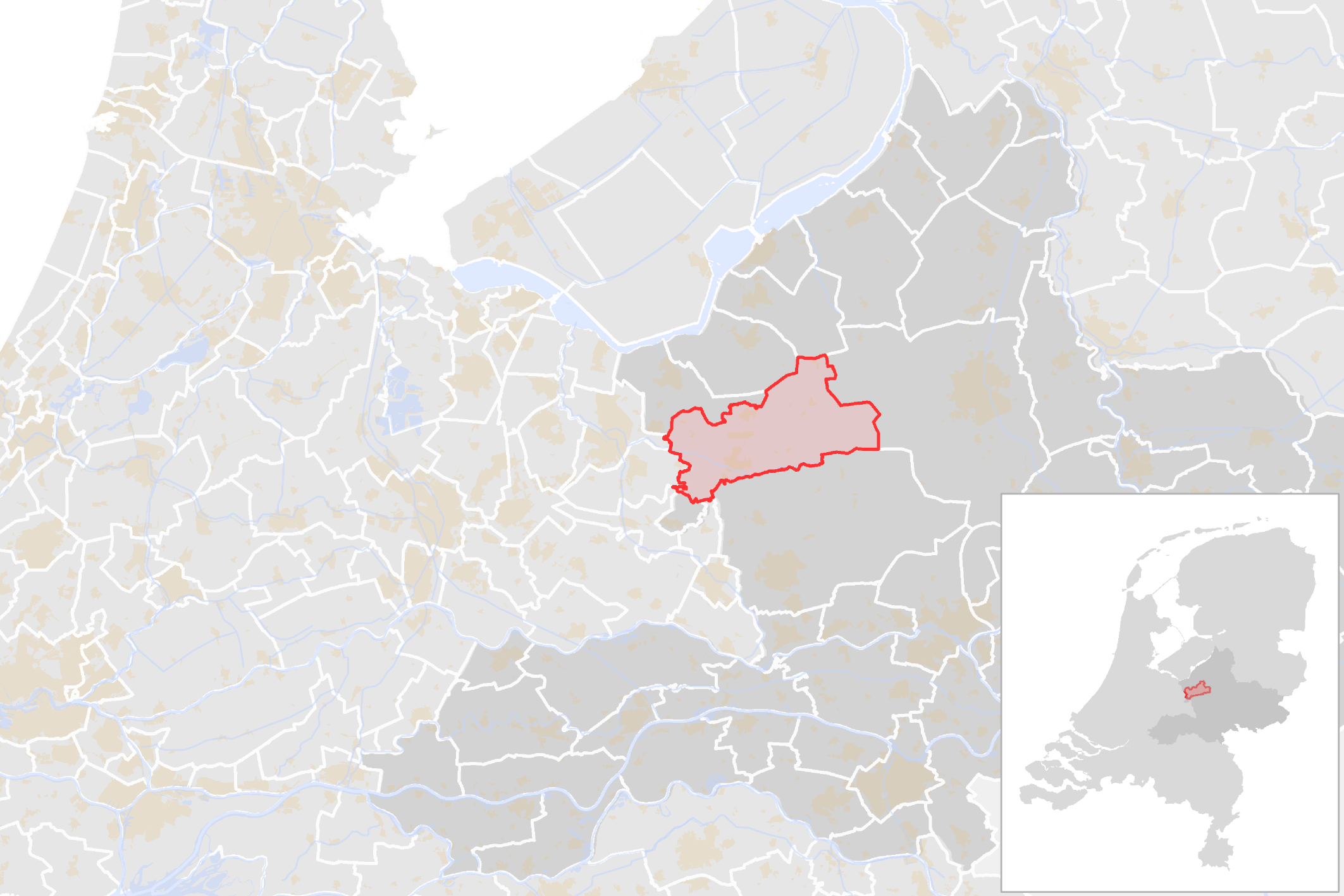 Locator map showing municipality boundary of one of the 390 Dutch municipalities (as of 2016)